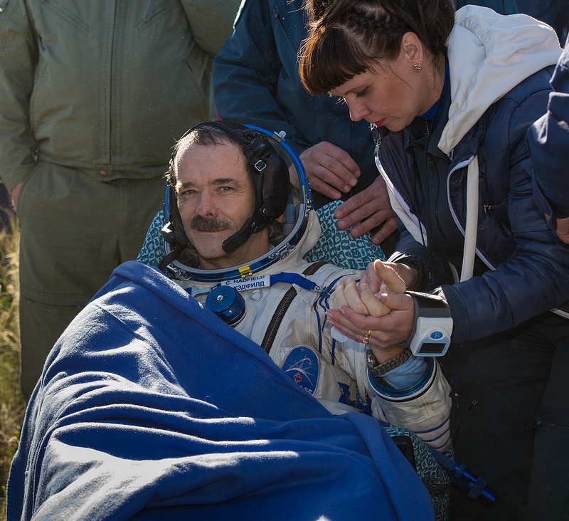 Photo